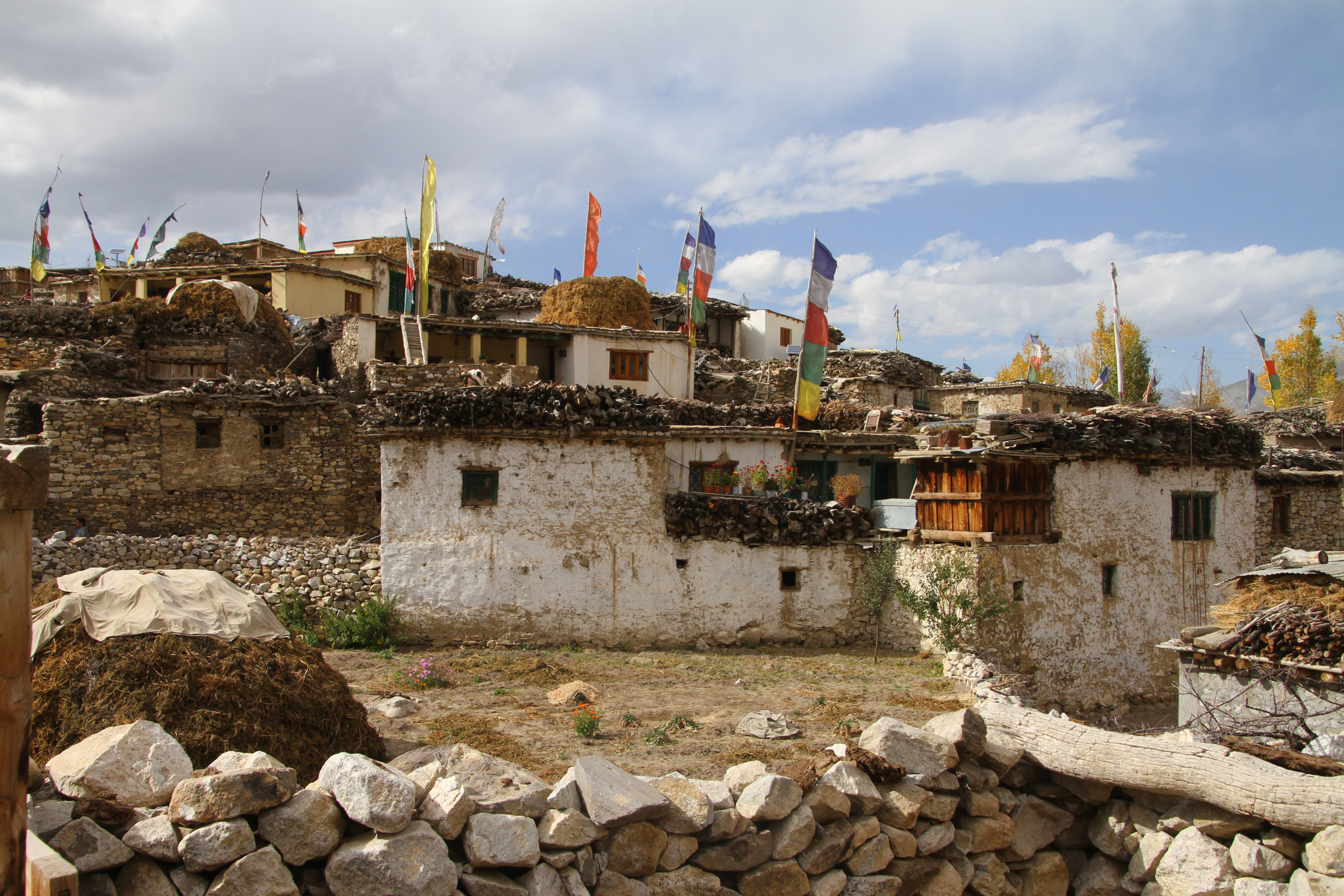 Nako in Himachal Pradesh in India.